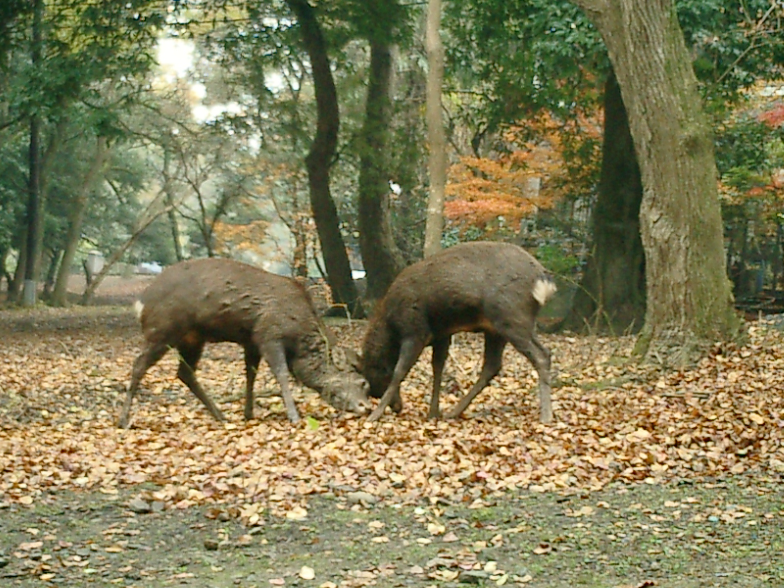 Nara, Japan